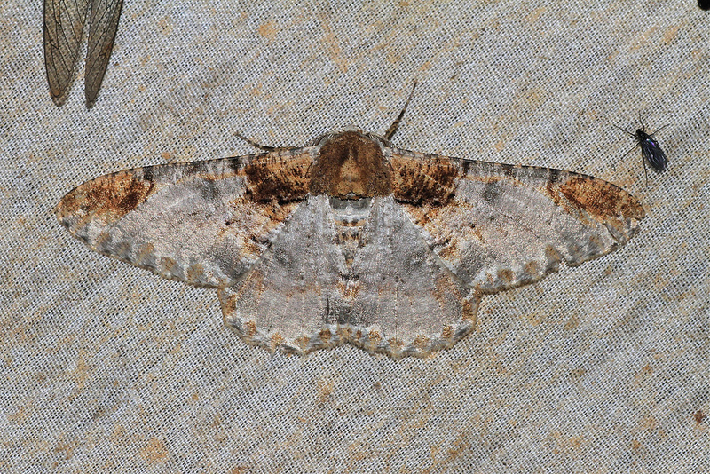 Amraica solivagaria, Borneo, Trusmadi area